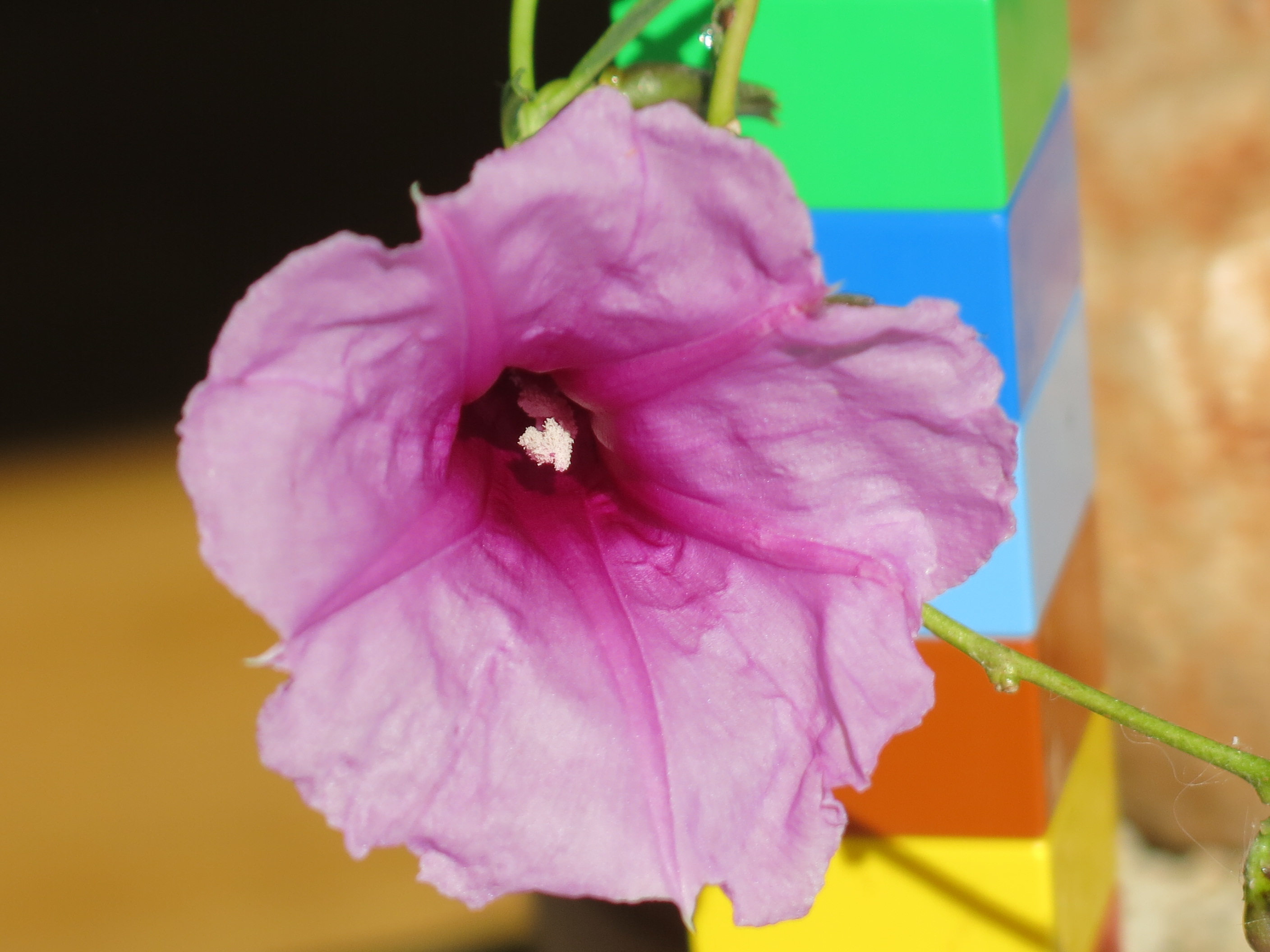 Ipomoea holubii growing near Paris (France).